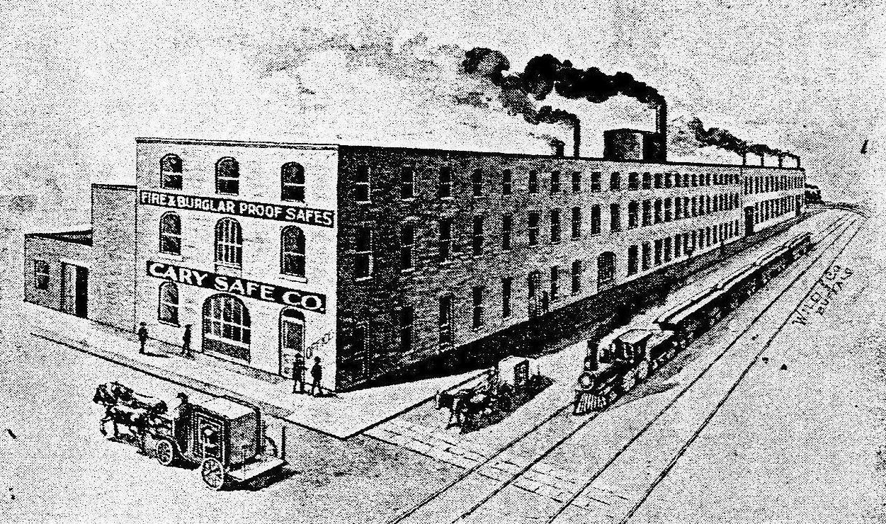 Cary Safe Company production factory, Corner of 250-266 Chicago Street and 217 to 249 Scott Street, Buffalo NY